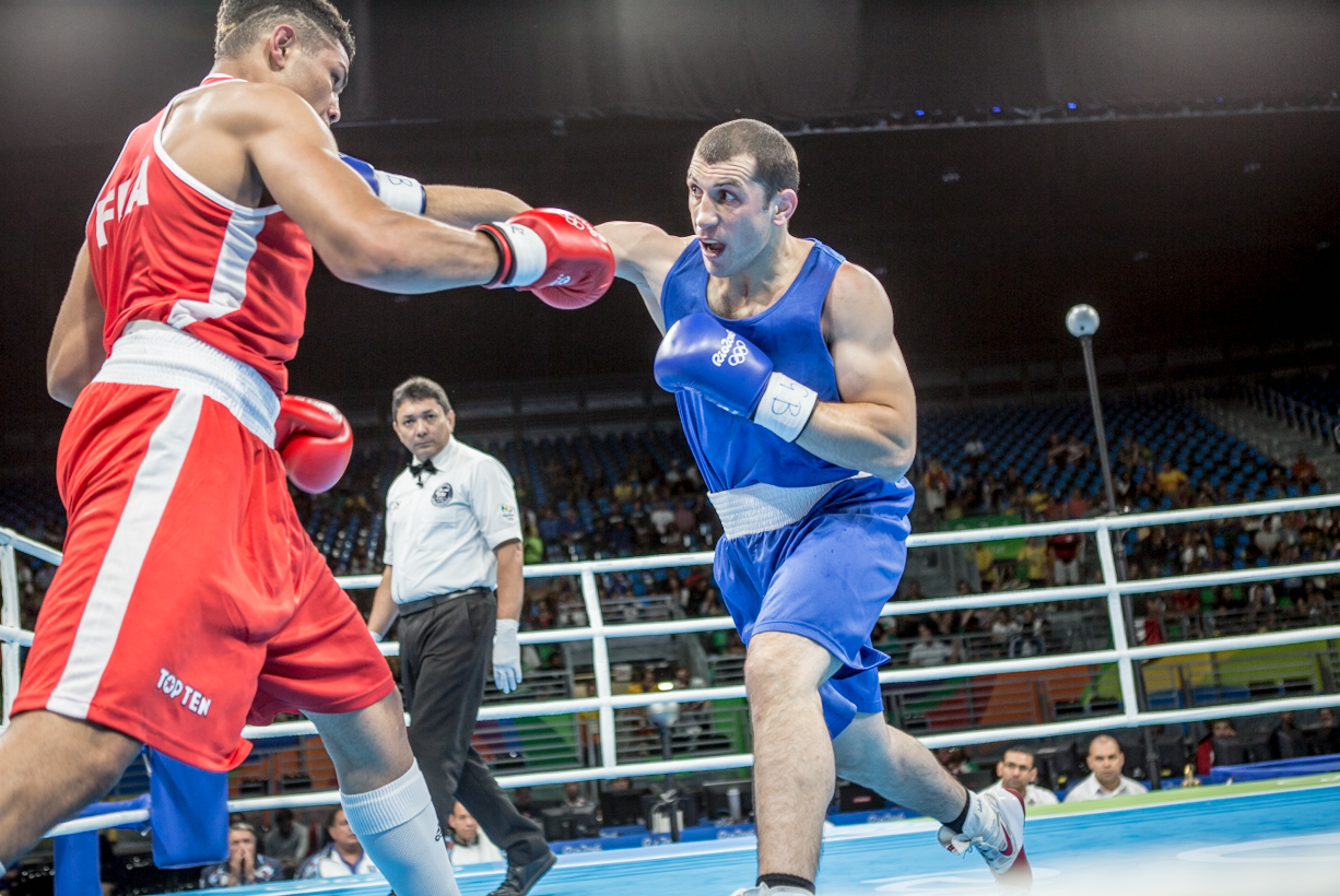 Day 3 at the 2016 Summer Olympics. Boxing 91 kg. Round of 16, Abdulkadir Abdullayev (AZE) vs Paul Omba-Biongolo (FRA)